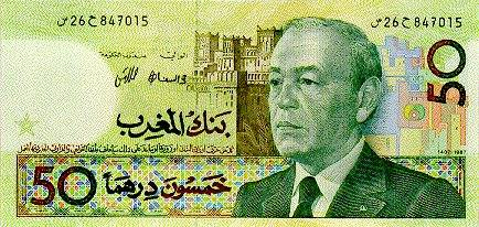 50 Dirham